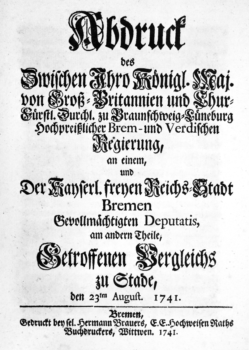 Cover page of the Zweiten Stader Vergleich (“Second compromise of Stade”), agreed on between the city of Bremen and the Electorate of Brunswick-Lüneburg in Stade, Germany, 23 august 1741.